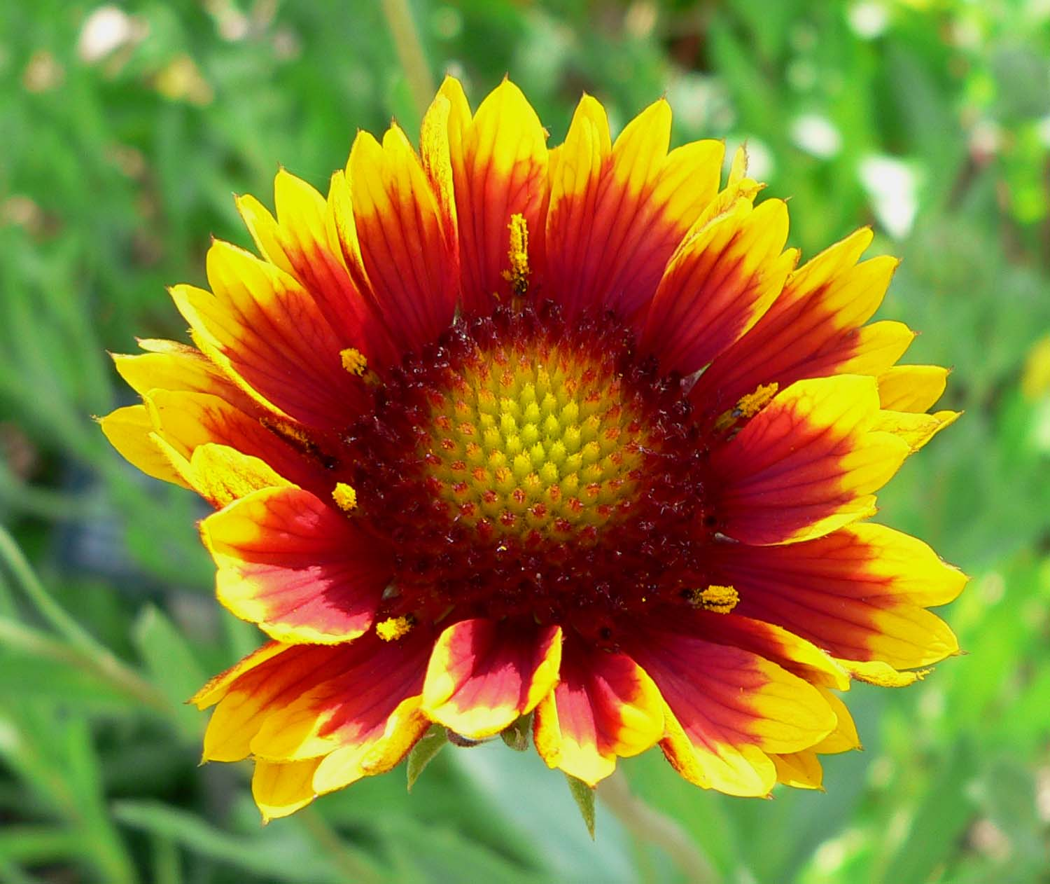 Photo of Gaillardia x grandiflora (hybrid blanketflower) at the Springs Preserve garden in Las Vegas, Nevada